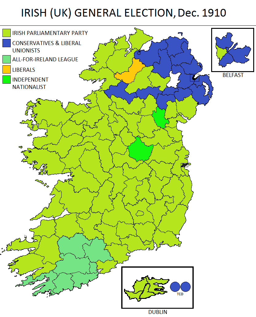 Map featuring the results of the December 1910 UK general election in Ireland